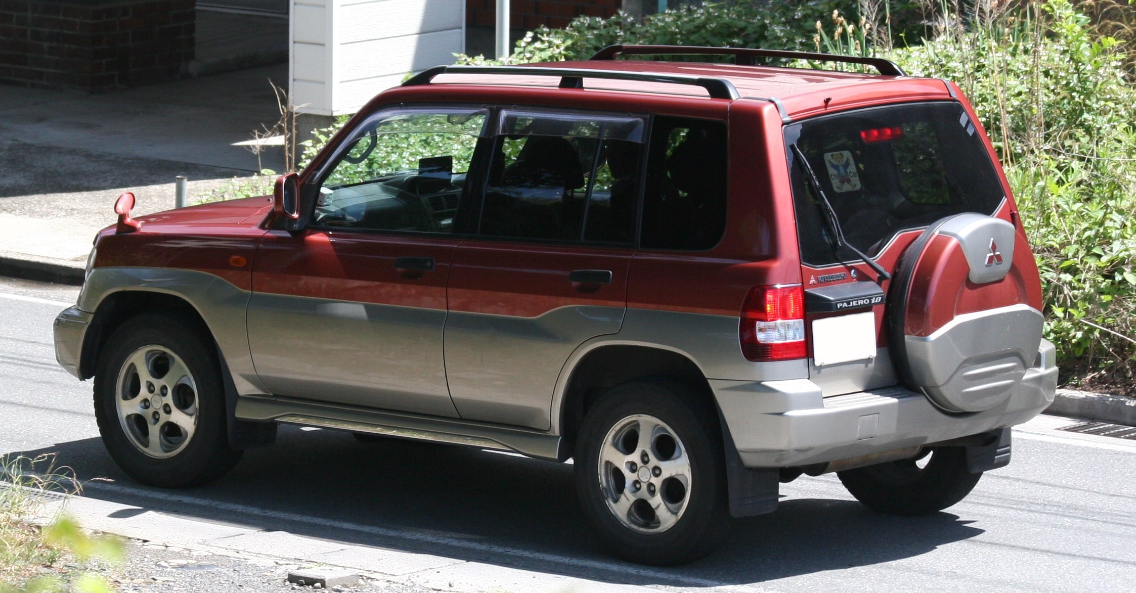 Mitsubishi Pajero iO